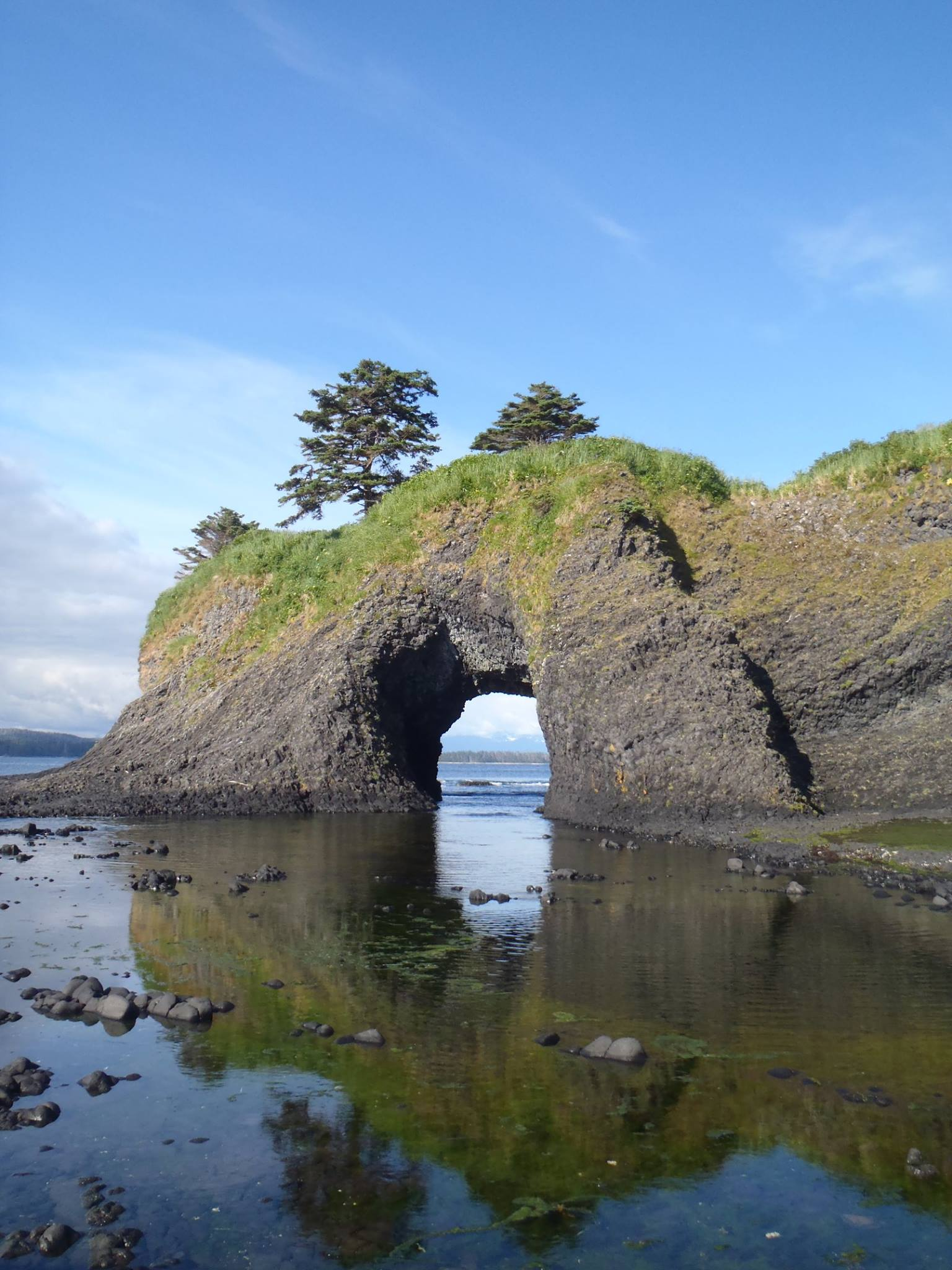 Rock Arch on St. Lazaria by Nora Rojek/USFWS.